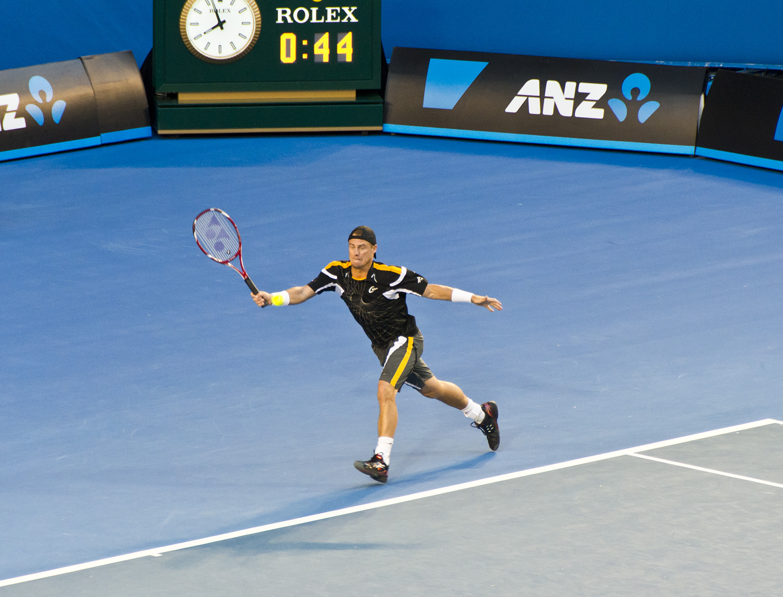 Lleyton Hewitt